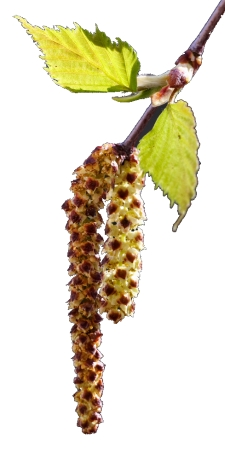 Silver Birch (Betula pendula) male catkins, Finland. White background.